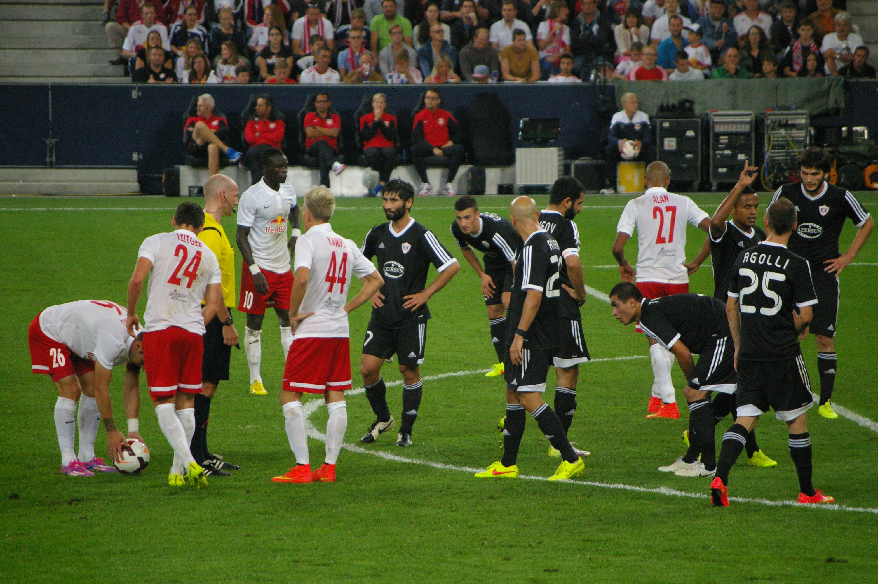 Championsleague Qualifier 3rd round